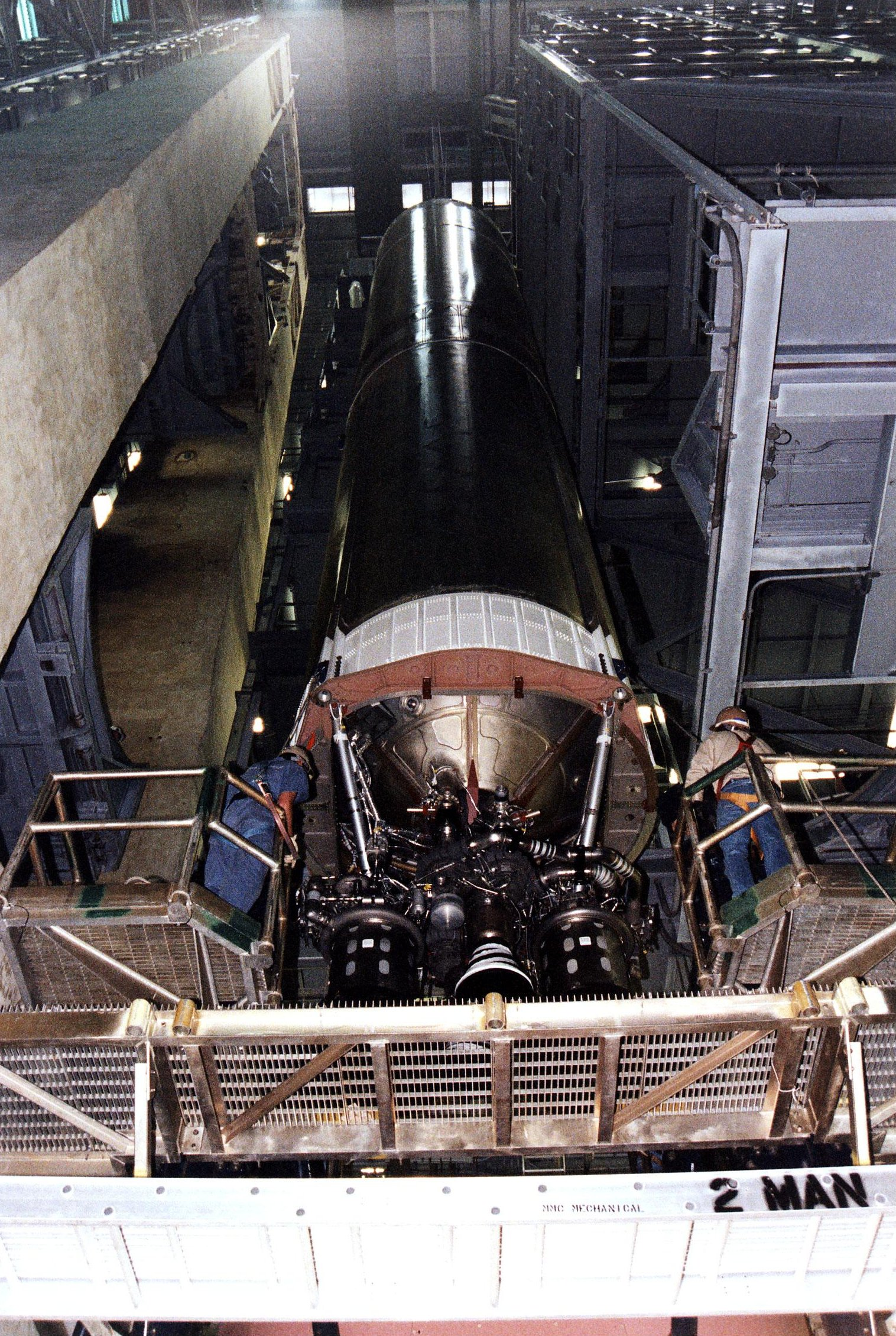 The first stage of the Titan IV expendable launch vehicle that will propel the Cassini spacecraft to Saturn and its moon Titan is lowered into a high bay in the Vertical Integration Building at Cape Canaveral Air Station (CCAS) to begin stacking operations. The Titan IV is currently scheduled to lift off from Launch Pad 40 at CCAS on October 6. Once deployed from the Titan's Centaur upper stage, Cassini will conduct gravity-assist flybys of the planets Venus and Jupiter, then arrive at Saturn in July 2004. Once there, it will perform an orbital survey of Saturn and send the European Space Agency's Huygens Probe into the dense and seemingly Earthlike atmosphere of Titan. The Cassini project is managed by NASA's Jet Propulsion Laboratory (JPL), Pasadena, California